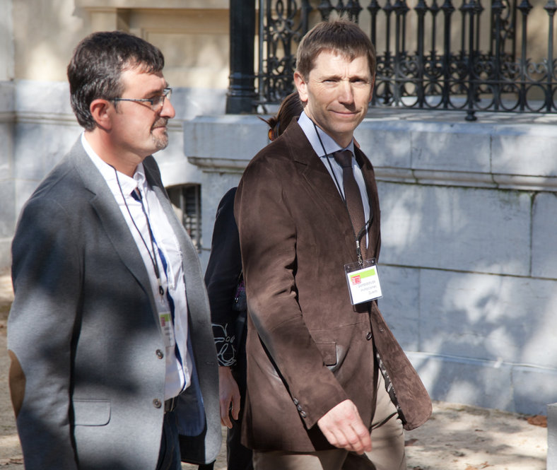 Basque left-wingers Juan Joxe Petrikorena (left) and Rufi Etxeberria (right) at the International Conference to Promote the resolution of the conflict in the Basque Country